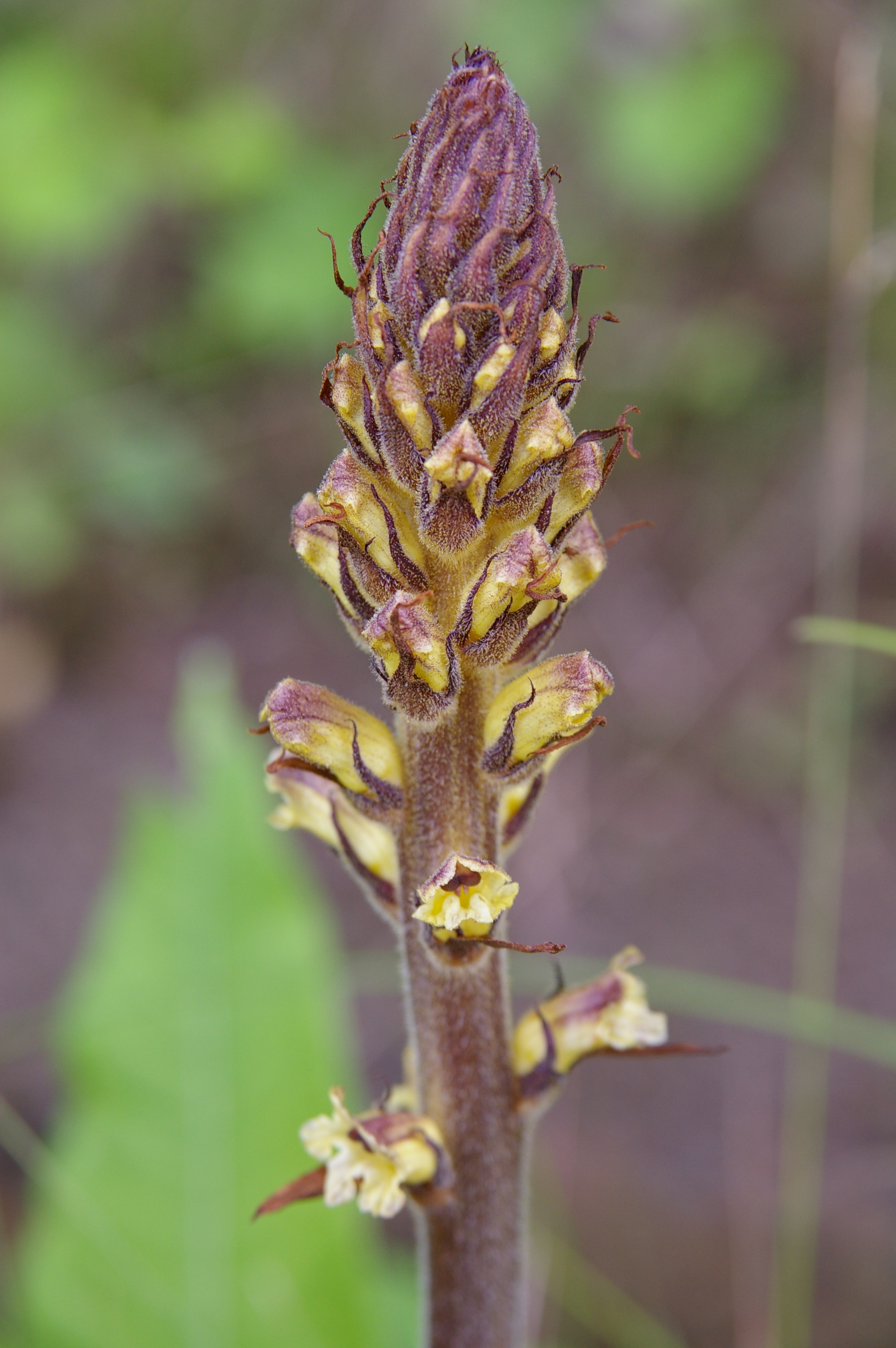 Thistle Broomrape Orobanche reticulata photographed near the foot of Ålleberg in Sweden.